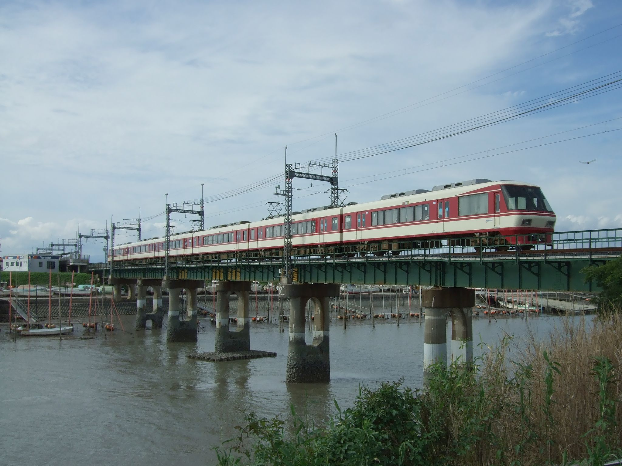 Nishi Nippon Railroad EMU Type8000 Number:8031-8032-8033-8034-8035-8036 Location:Between Nishitetsu-Nakashima station and Enoura station(Yabegawa River bridge), Tenjin Ōmuta Line